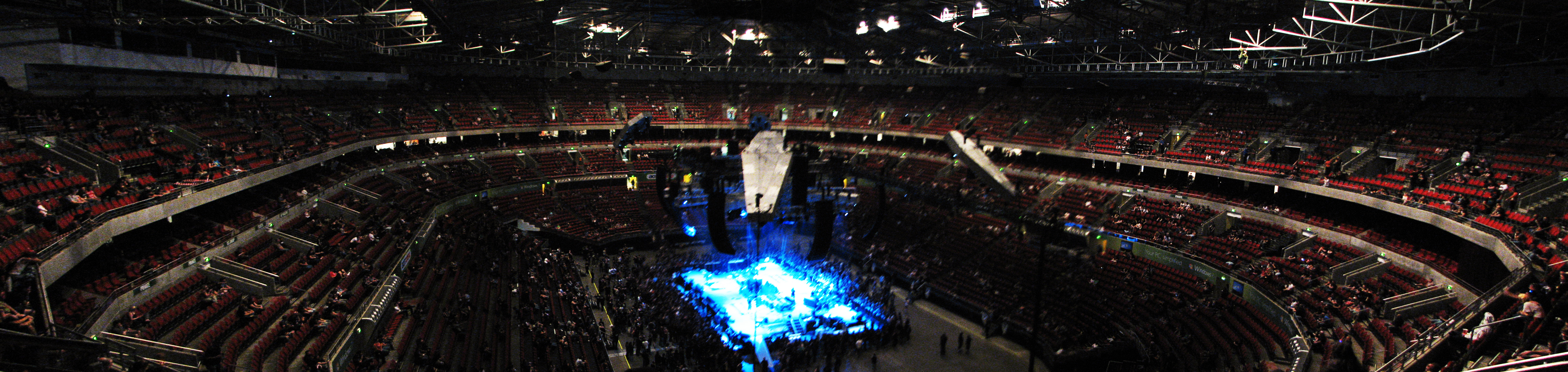 in between Baroness and Lamb of God...